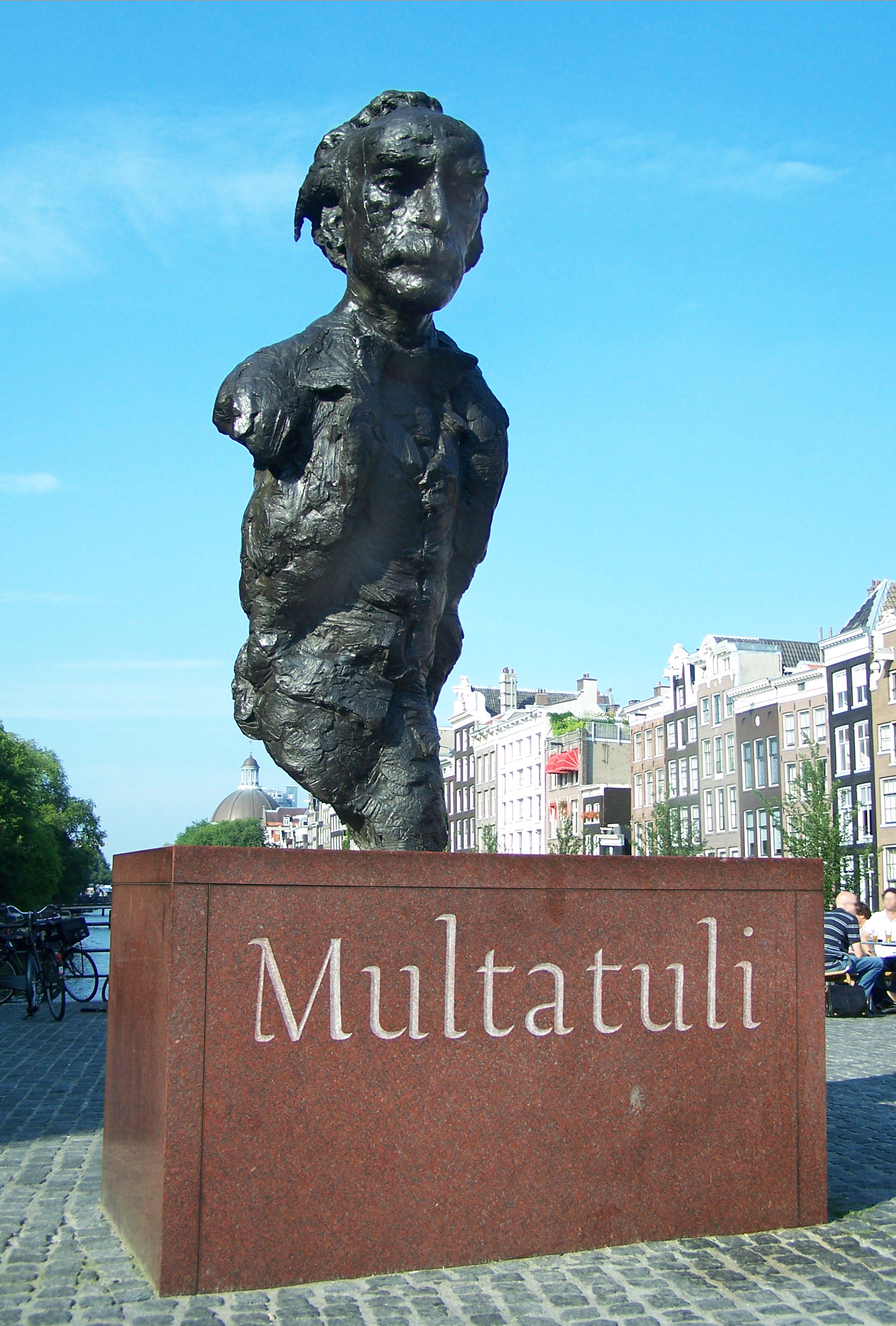 Statue of the writer Multatuli at the Torensluis. Placed in 1987, 100 years after his death, and made by Hans Bayens.